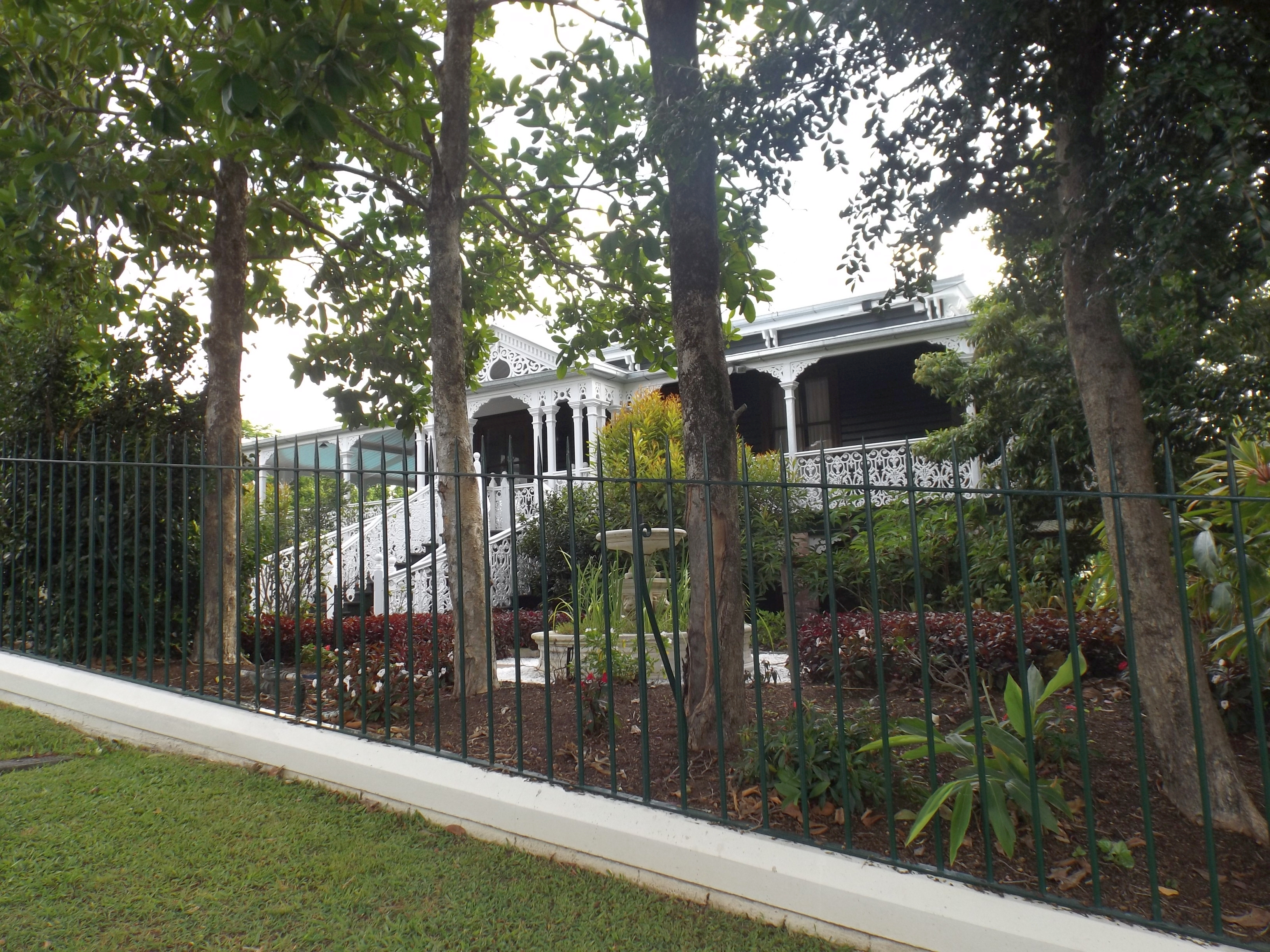 Photo of the garden at the Warrawee residence at Toowong, Brisbane, Queensland, Australia.